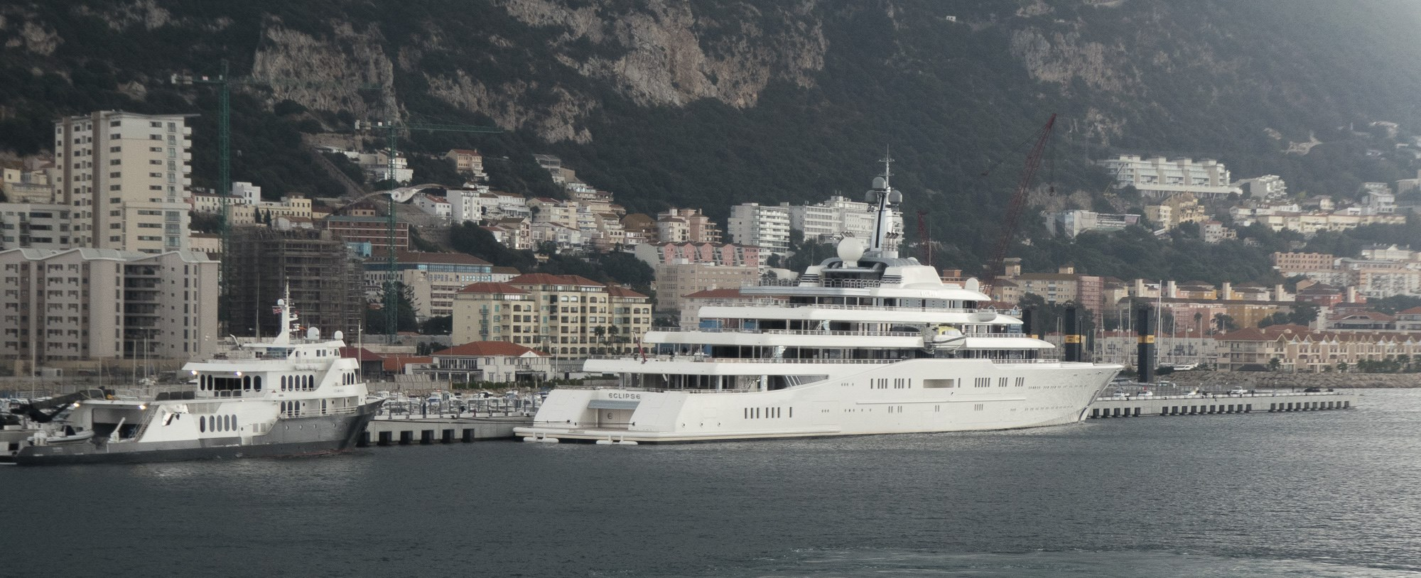 Superyacht, "Eclipse", with its support vessel, quayside at the port of Gibraltar.